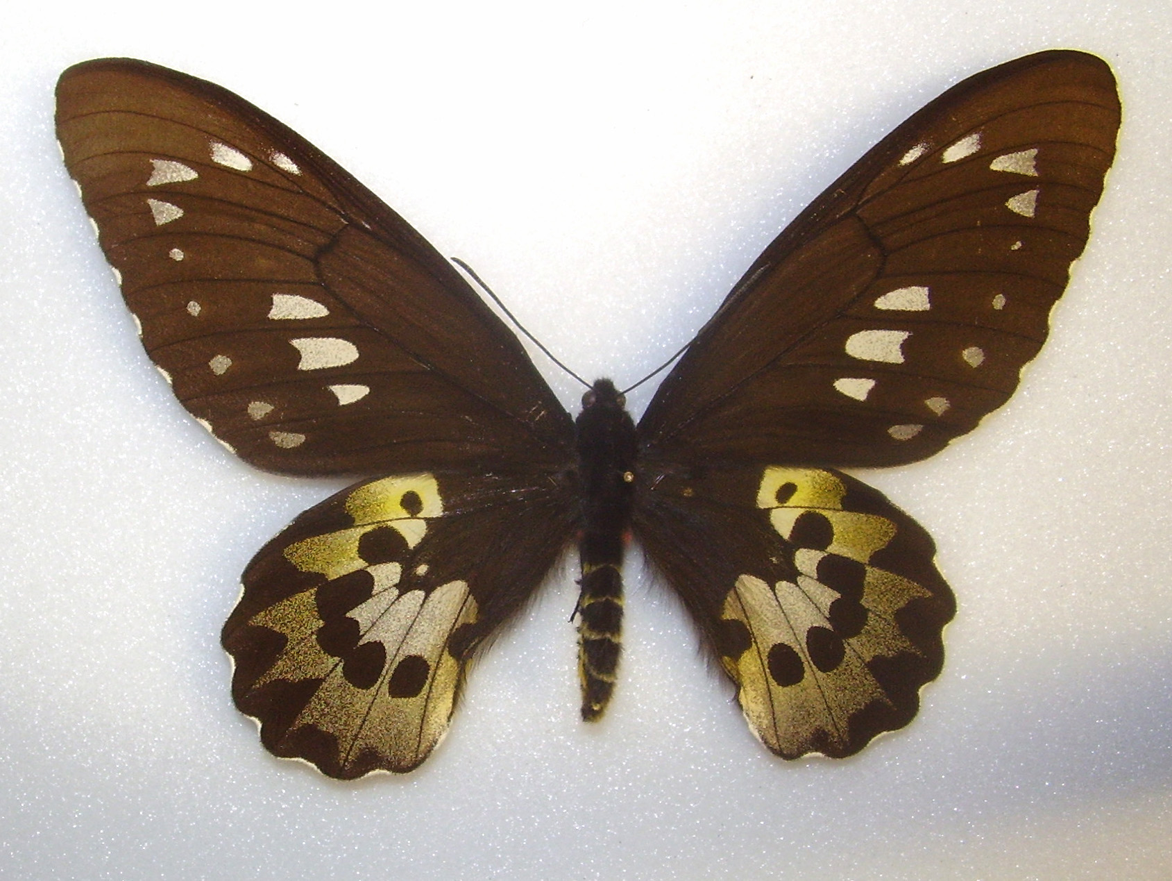 Ornithoptera rothschildi Female, upperside. Lake Anggi, West Irian 27 September 1976